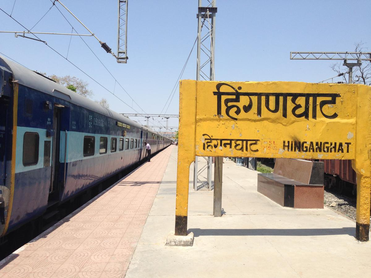 Hinganghat Railway staion